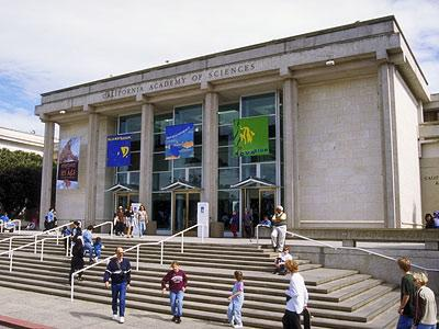 Main Entrance of the California Academy of Sciences — in 2006 prior to reconstruction, Golden Gate Park, San Francisco.